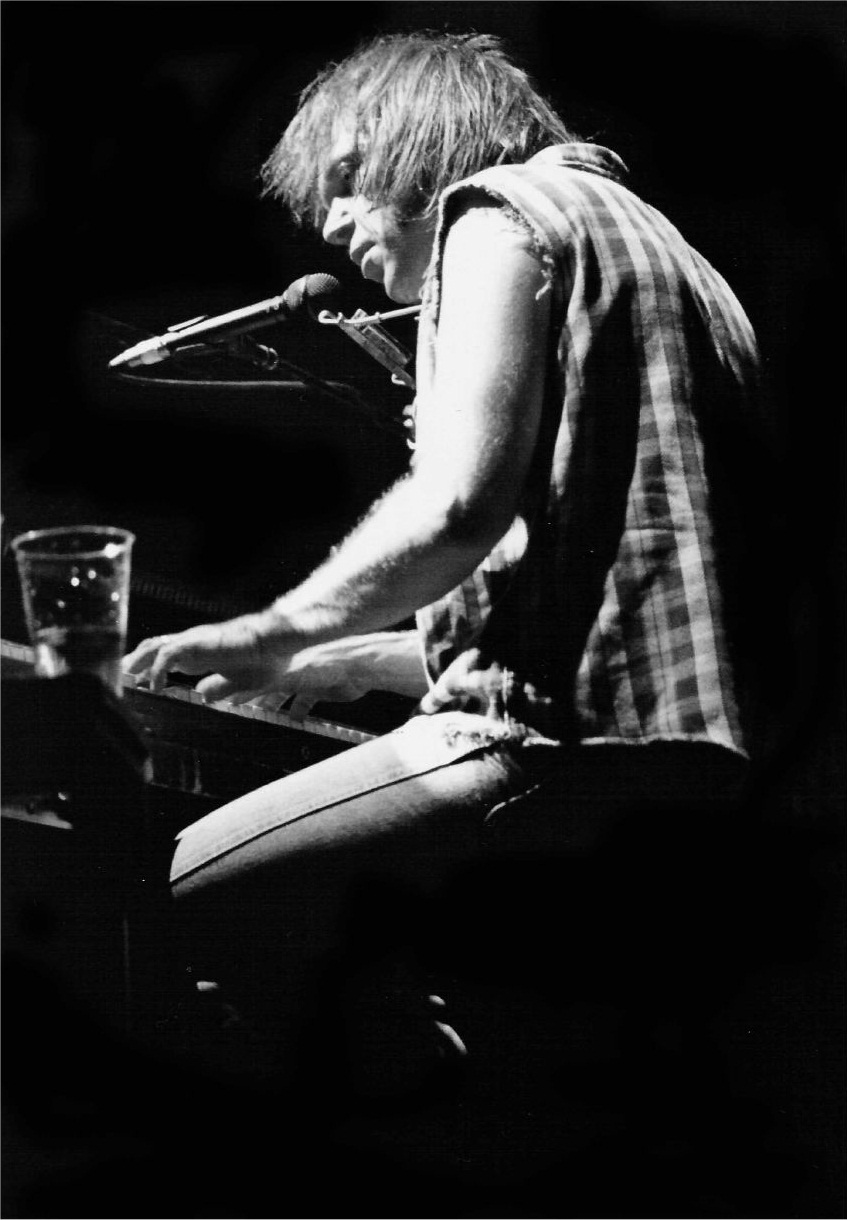 Shhhhh, está cantando Neil Young. Camara: Olympus OM2 Objetivo: OM 135mm 2.8 Photographer: F. Antolín Hernández